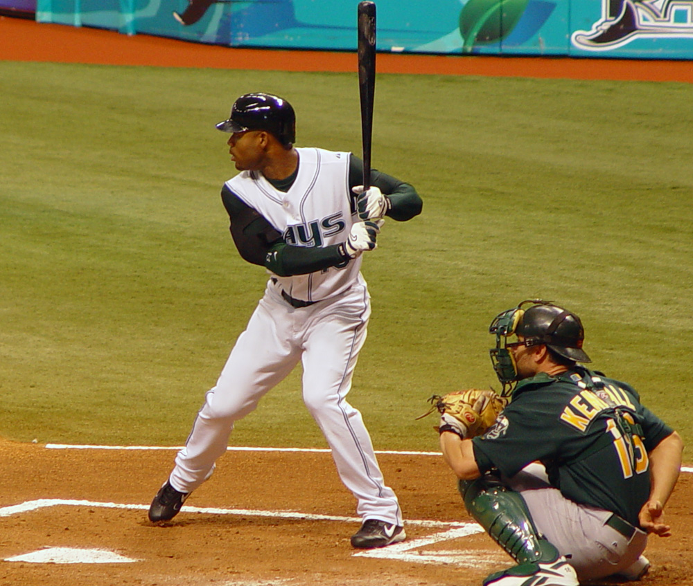 Carl Crawford at bat, May, 2005. Photo by Googie man 21:57, 11 July 2005 . . Googie man . . 1000×847 (365,029 bytes)